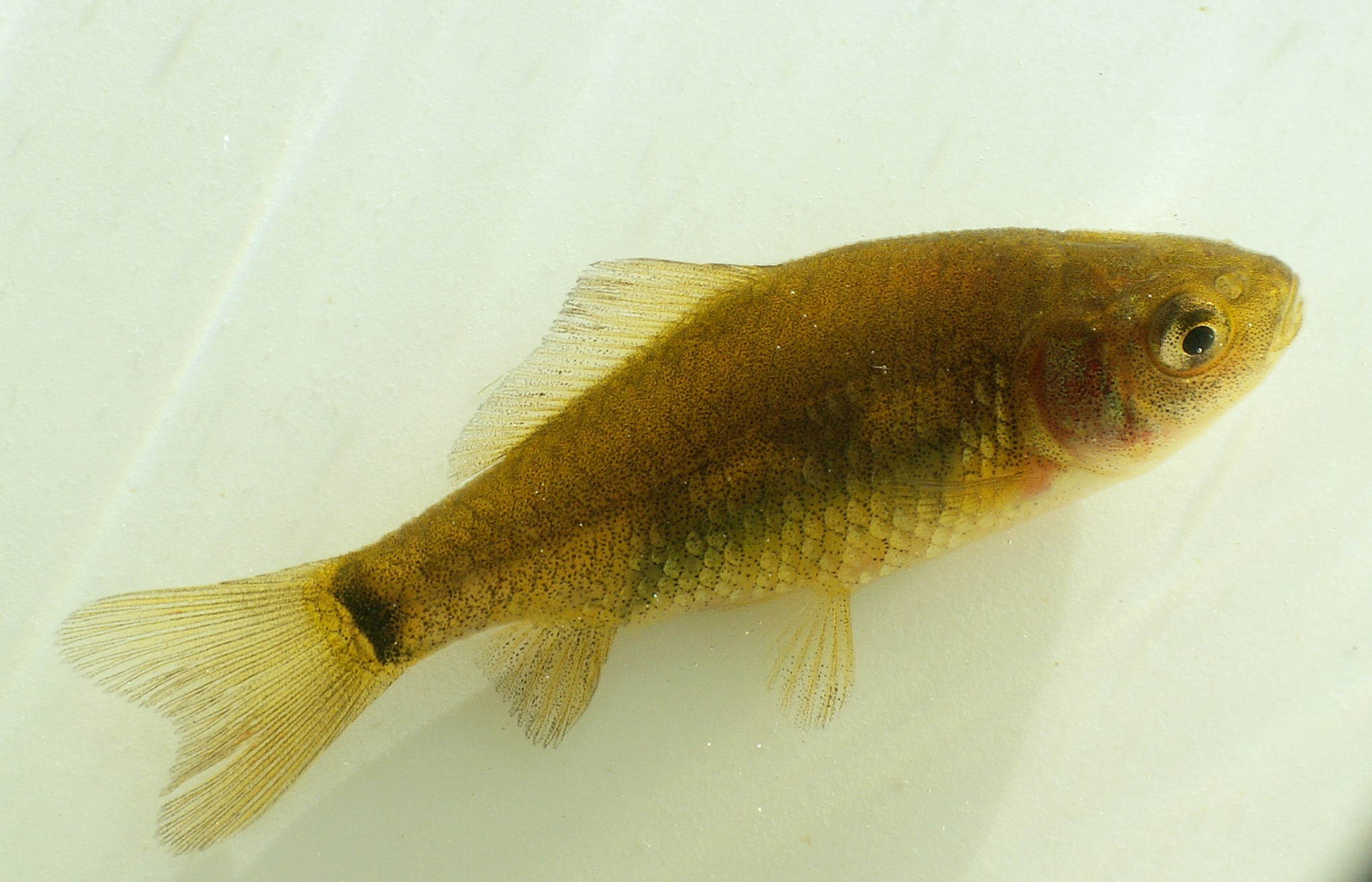 Juvenile Crucian carp (Carassius carassius) from Gelderland, the Netherlands. Young crucian carp are identifiable from carassius auratus by the black spot on the tail.